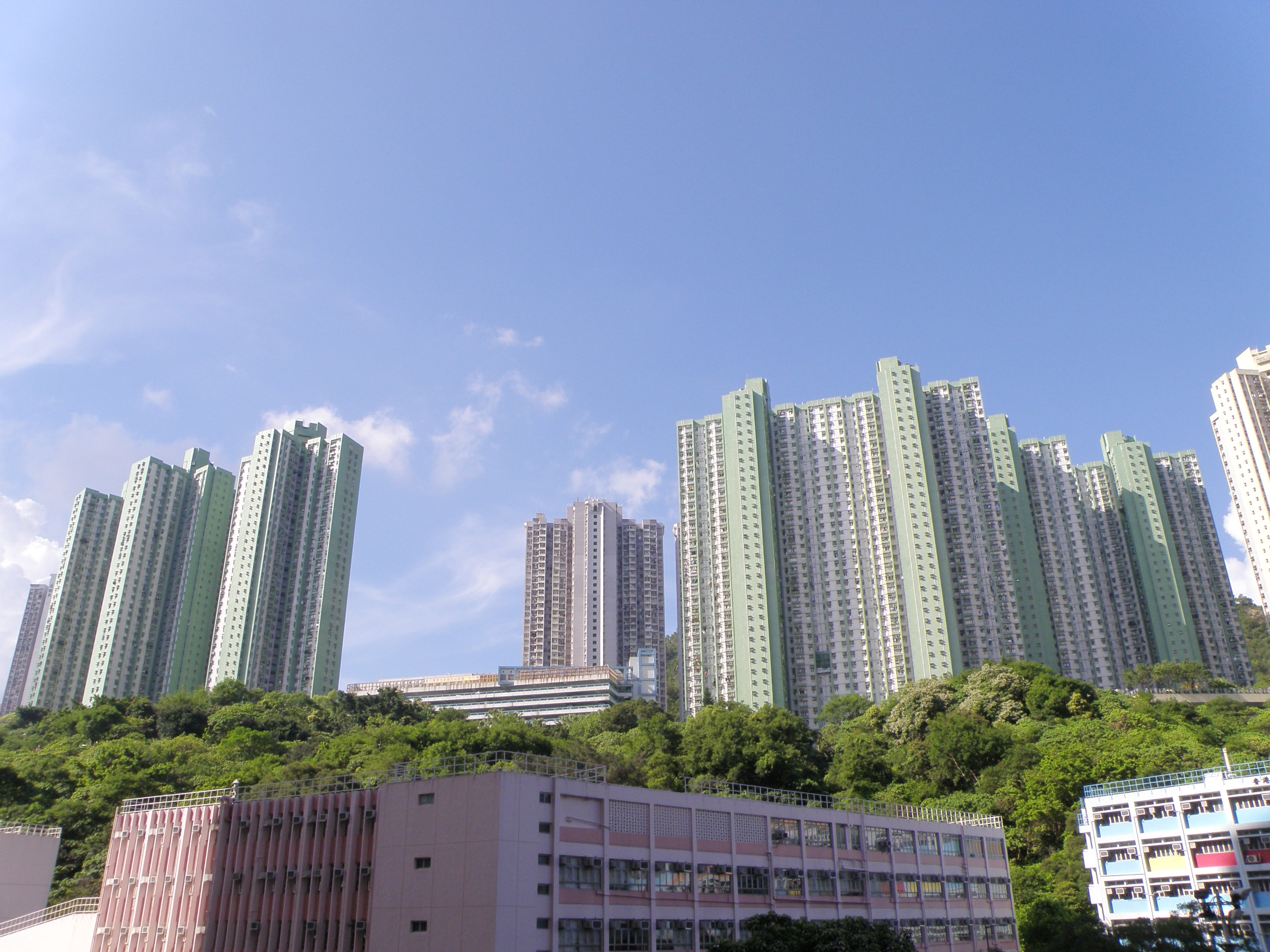 Hong Pak Court in Yau Tong, Hong Kong.